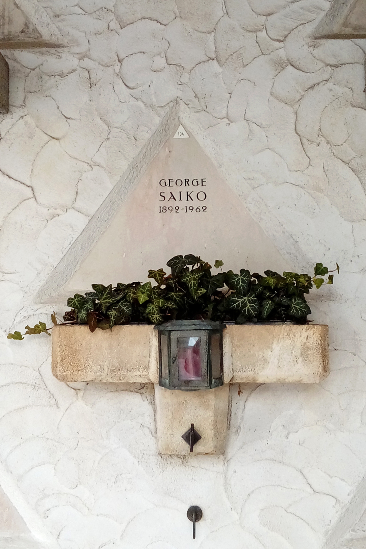 Urn grave of the writer and art historian George Saiko (1892–1962). Feuerhalle Simmering, Vienna